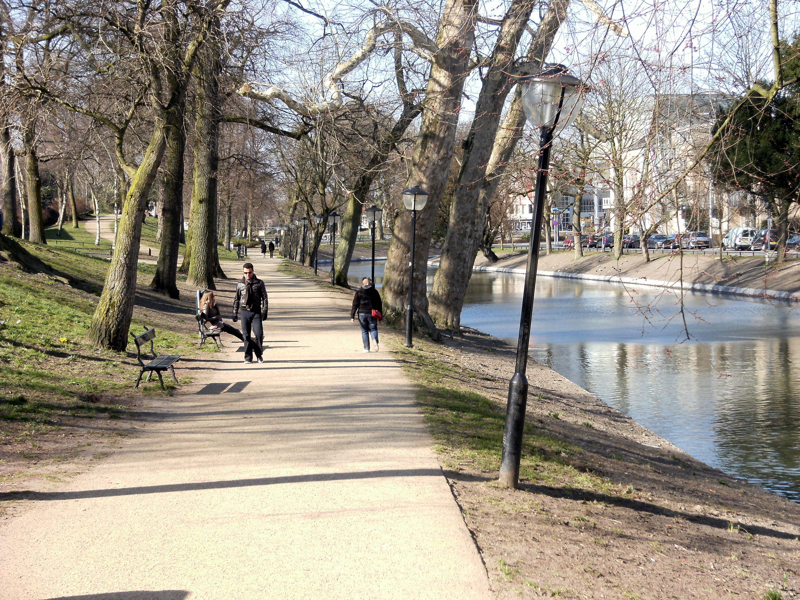 Zocherpark & Stadsbuitengracht, 2013-04-01 in Utrecht.